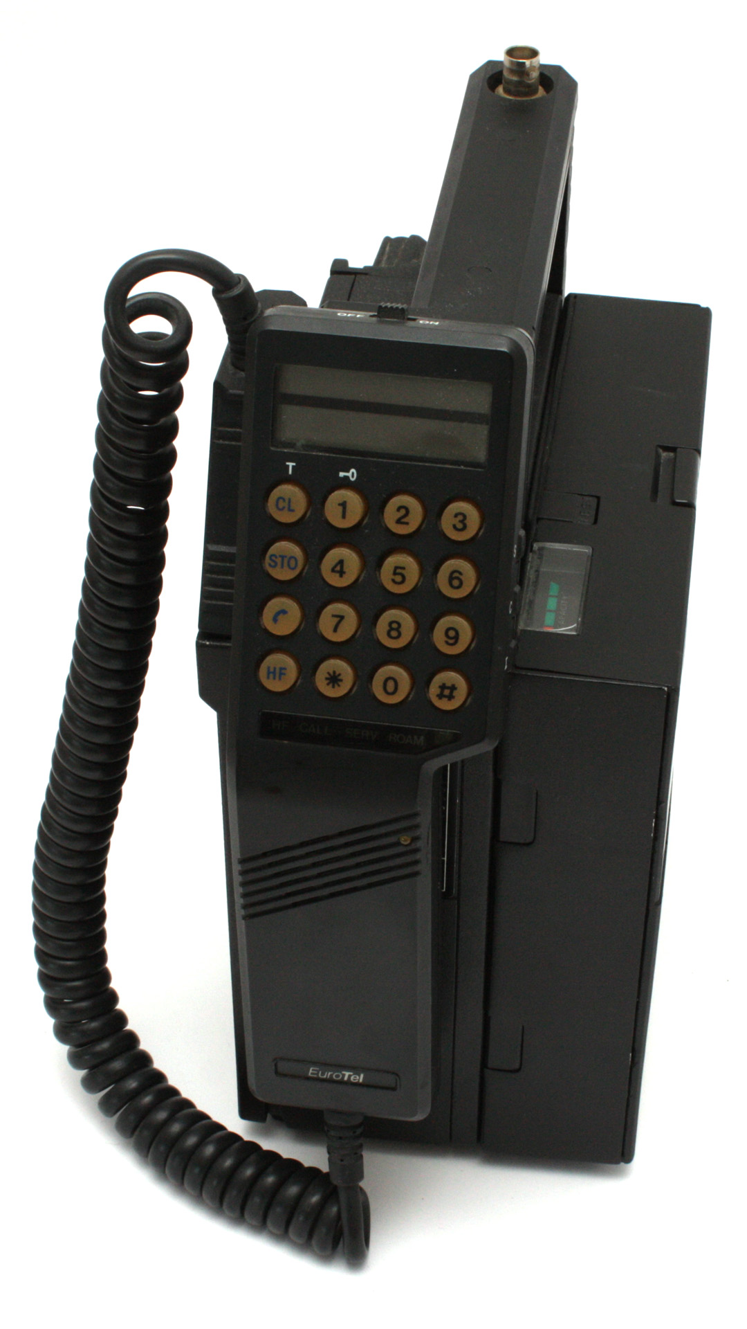 Nokia Talkman (Czech version MD59) NMT phone.